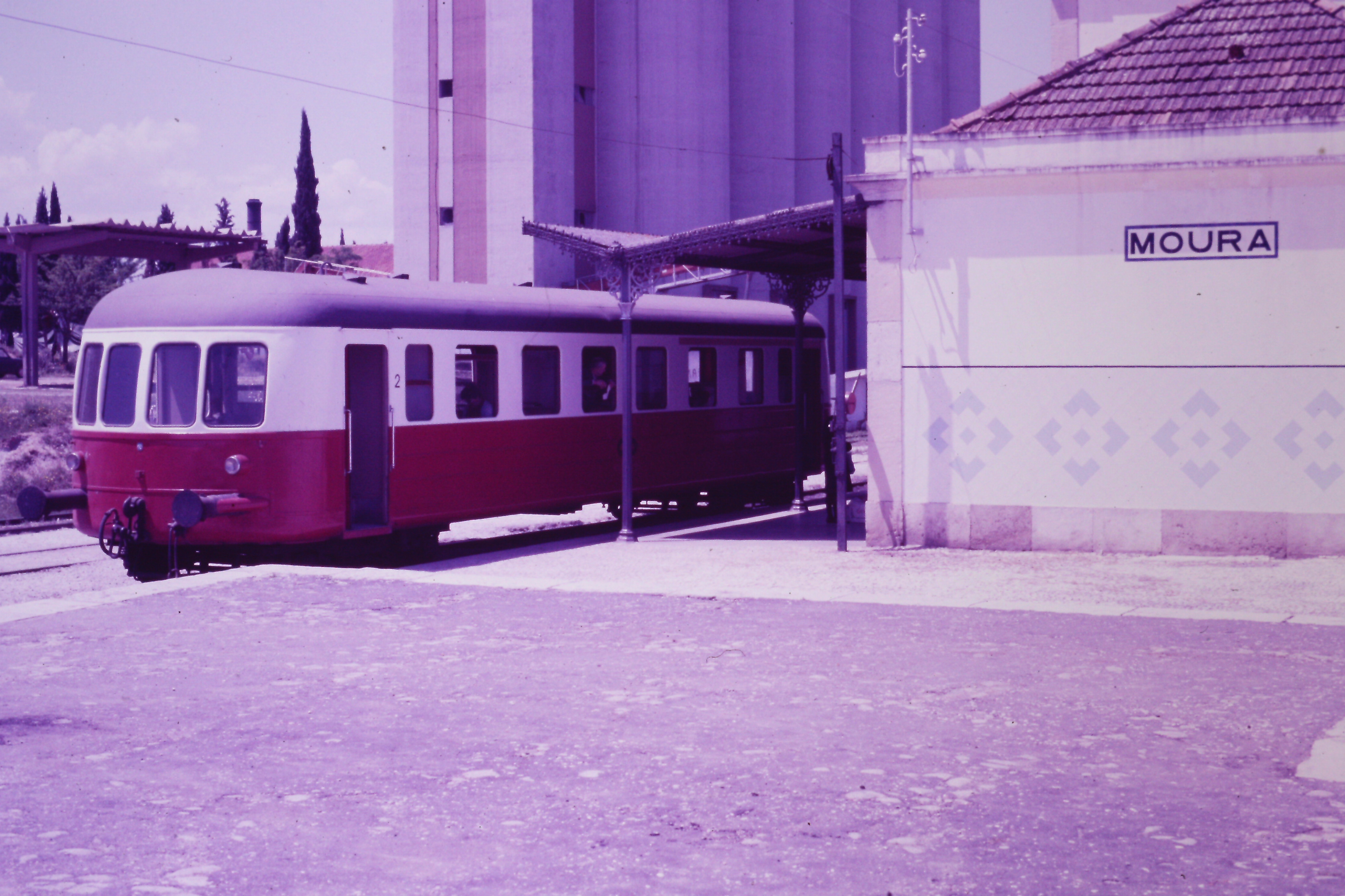 Moura train station at Moura railway line; Portugal